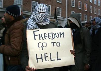 An Islamist protester in London 6 February 2006, taking part in protests against anti-Muslim cartoons.